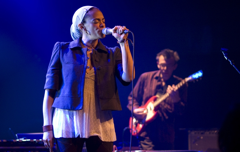 Ursula Rucker, Donaufestival 2008 in Krems (Austria)